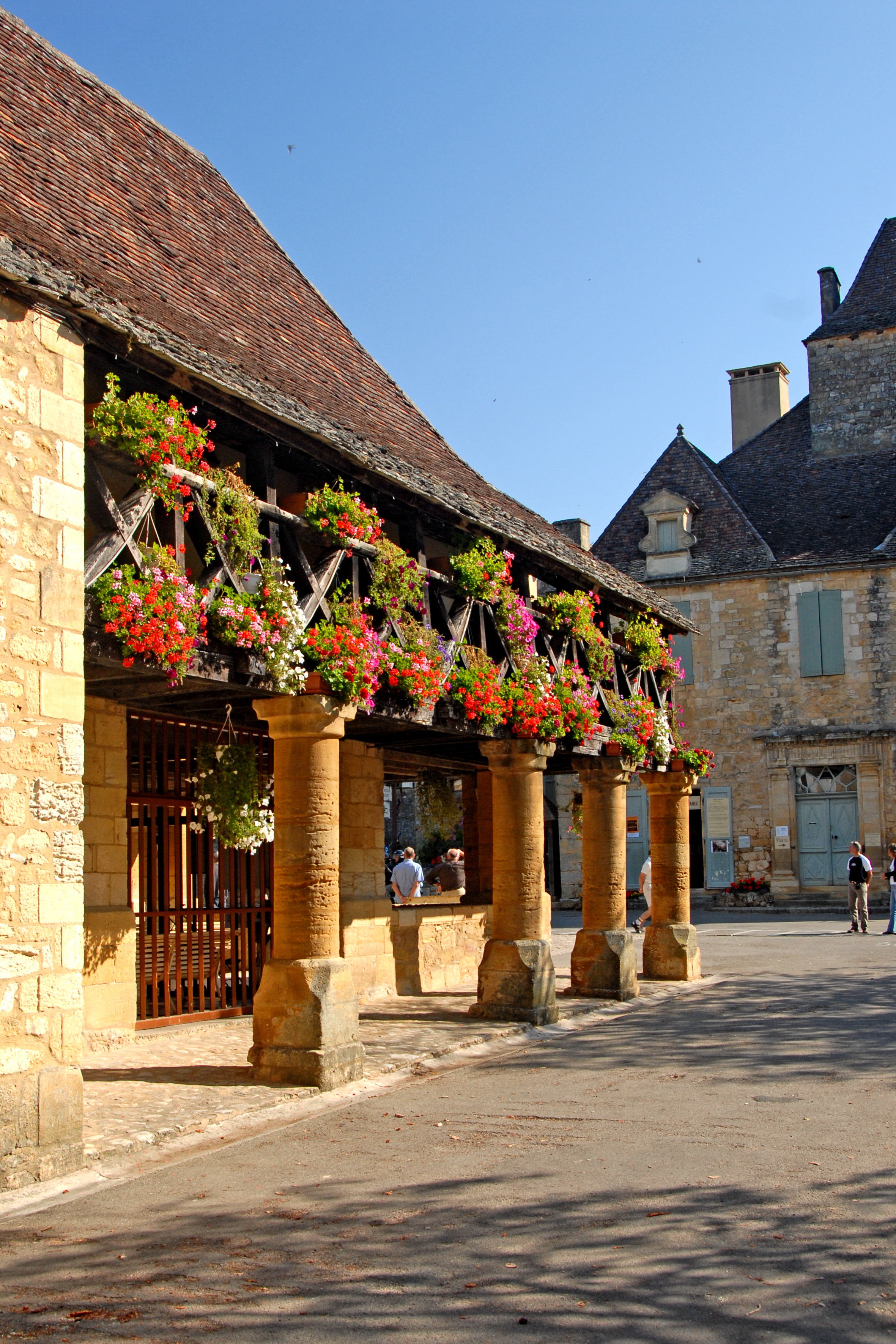 Domme, market hall